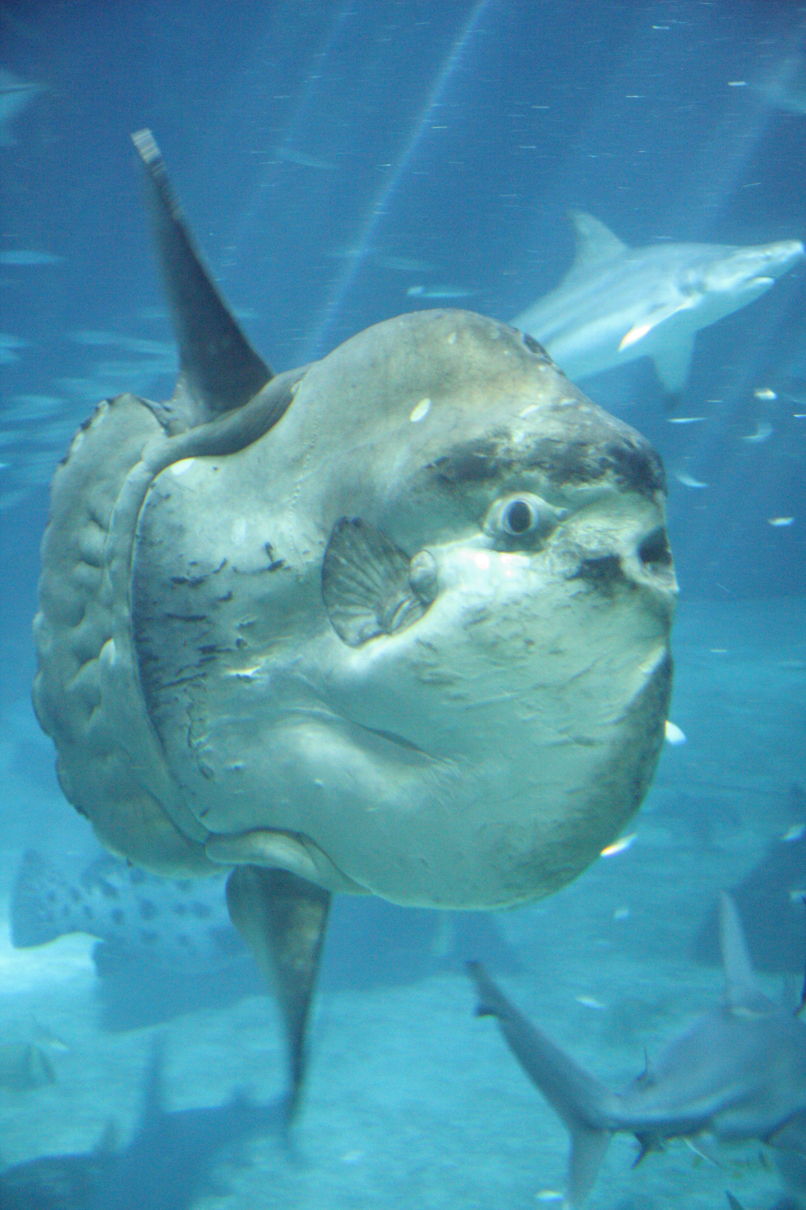 Ocean sunfish. The largest bony fish in the world. More than 3 metres long and 2 tons. Often lie on their side on the surface and drift with the current. I can relate to that.